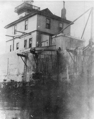 Public Domain statement here; The Lincoln Rock Lighthouse is a lighthouse located on Lincoln Island, a small islet in Clarence Strait in southeastern Alaska, USA. It lies just off the west coast of Etolin Island, between it and Prince of Wales Island.